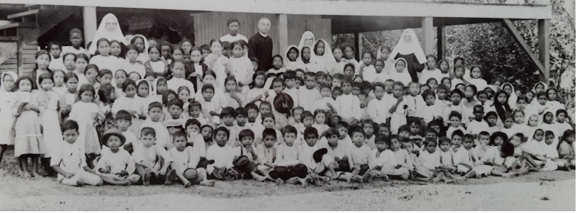 Pallottine Communion class in Benque Viejo Belize, c. 1915